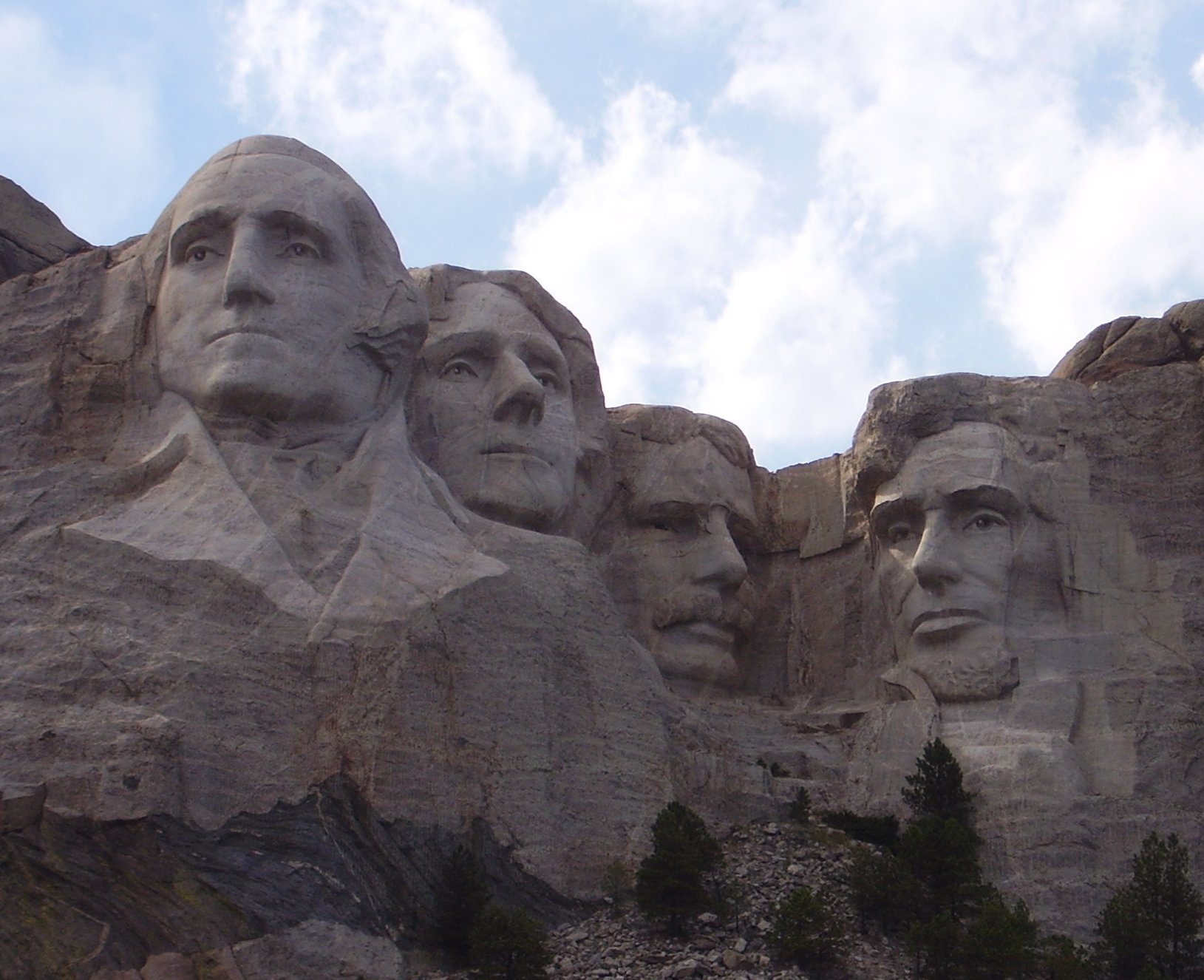 The faces of (left to right) George Washington, Thomas Jefferson, Theodore Roosevelt, and Abraham Lincoln on Mount Rushmore National Memorial. It was cloudy so the shadows aren't as harsh as they are on some other pictures.